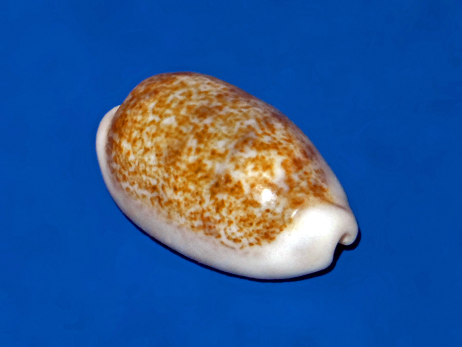 Shell of Blasicrura pallidula from Philippines at the Museo Civico di Storia Naturale di Milano